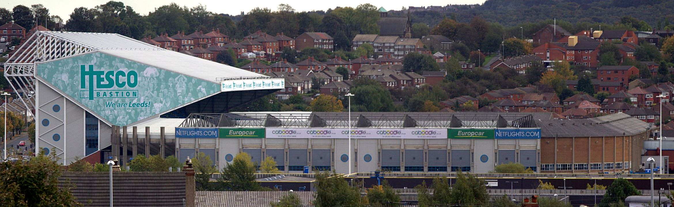 View of Elland Road Stadium from Wortley, including the redesigned "Hesco Bastion - We are Leeds!" end of the East Stand